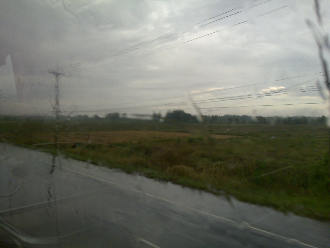 Amphoe Ban Dan Buriram, Thailand